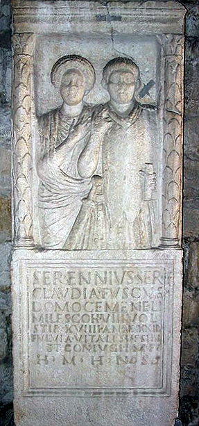 Ancient Roman inscription from Andetrium (Croatia), now in the archaeological museum of Split. Grave of Ennius Fuscus, soldier of the VIIIth Voluntariorum cohort.Reference : CIL III, 9782.